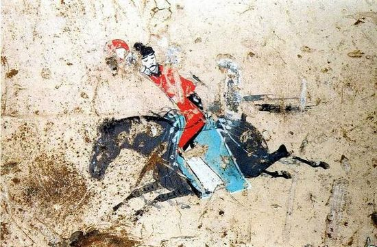 Fresco of a horseman in red hunting dress from a Western Han dynasty tomb in Sian, Shensi. The tomb found in the Xi'an University of Technology. For more information see: On-site conservation of the tomb mural of the Western Han dynasty at Xi'an University of Technology, Xi'an, China (中國西安理工大學西漢壁畫墓現場修護)